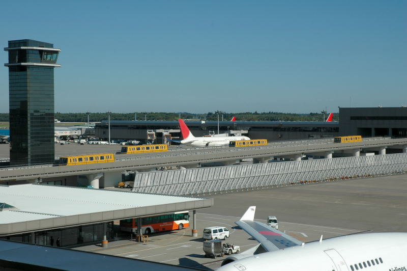 Terminal2 shuttle service between main building and satellite.